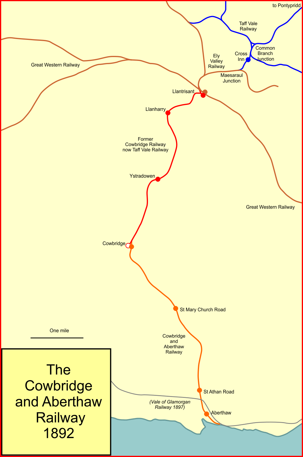 System map of the Cowbridge and Aberthaw Railway, Wales